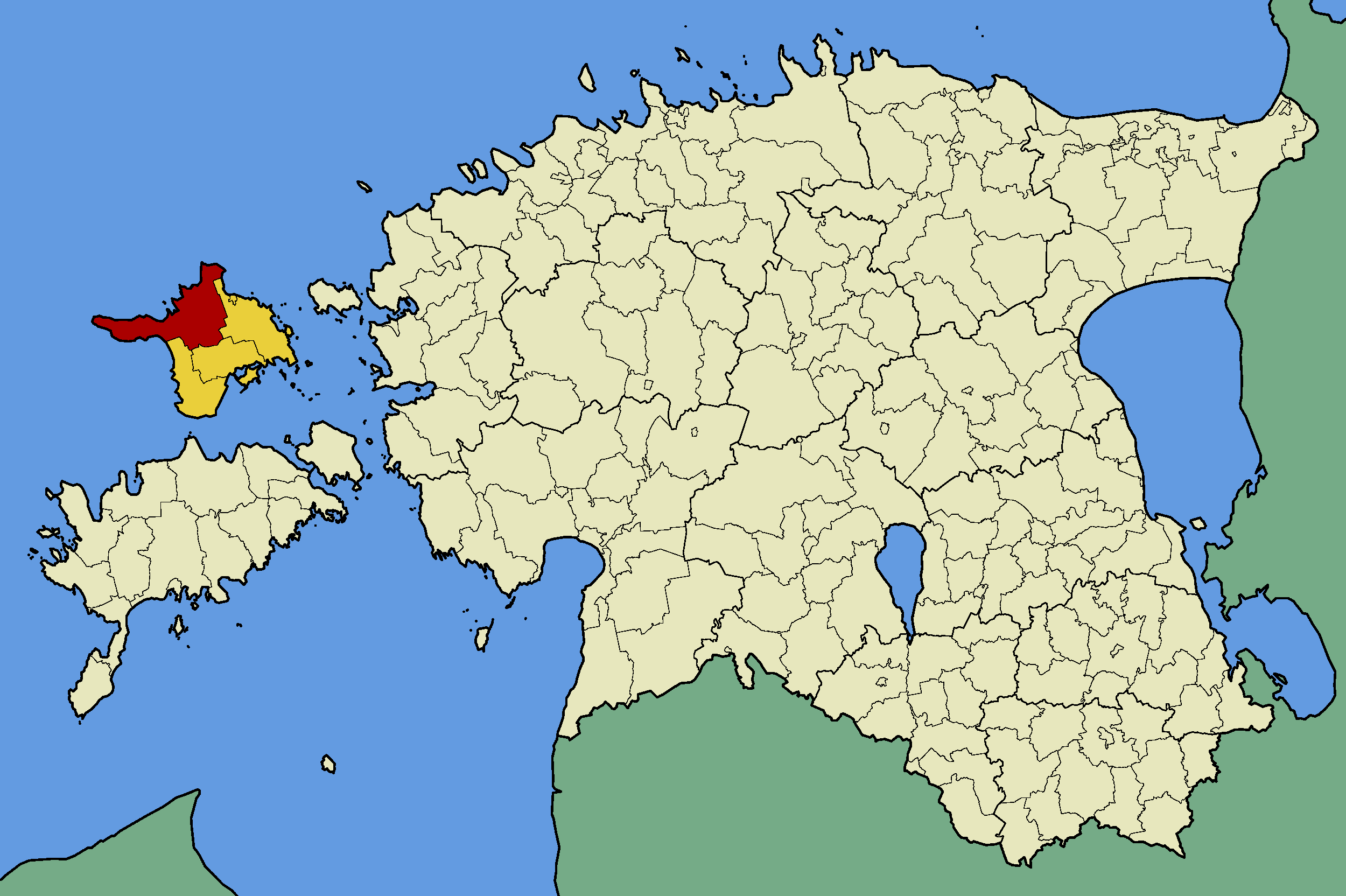 Map of Estonia with borders of municipalities (parishes). Hiiu county and Kõrgessaare municipality emphasized.